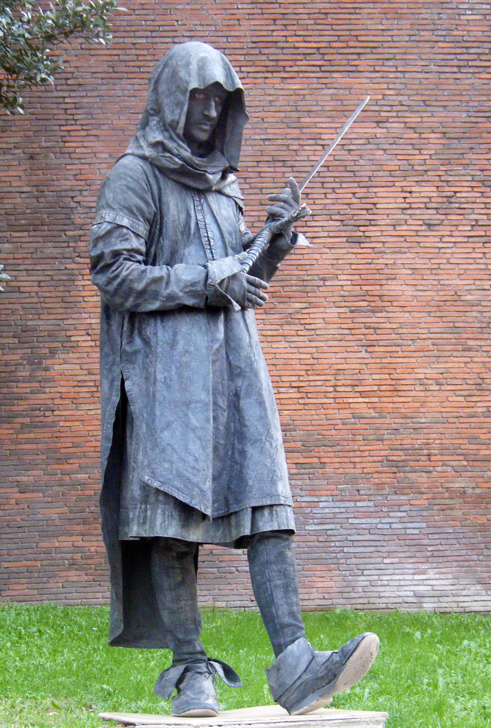 Mime artist in Rome